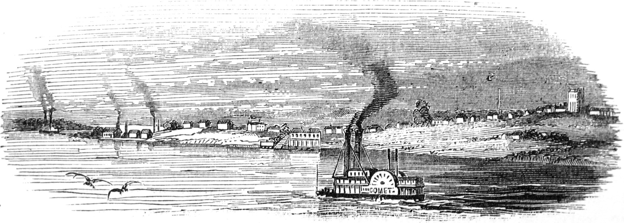 Nauvoo engraving